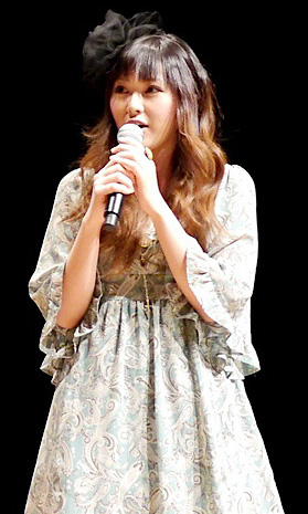 This is voice actress and singer Eri Kitamura snapped at the BRS PSP game press conference. Eri-san is an immensely popular voice actress with a long history of voice acting.